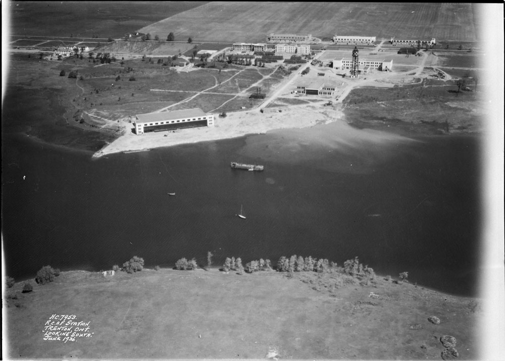 RCAF Station, Trenton, Ont. Looking South.